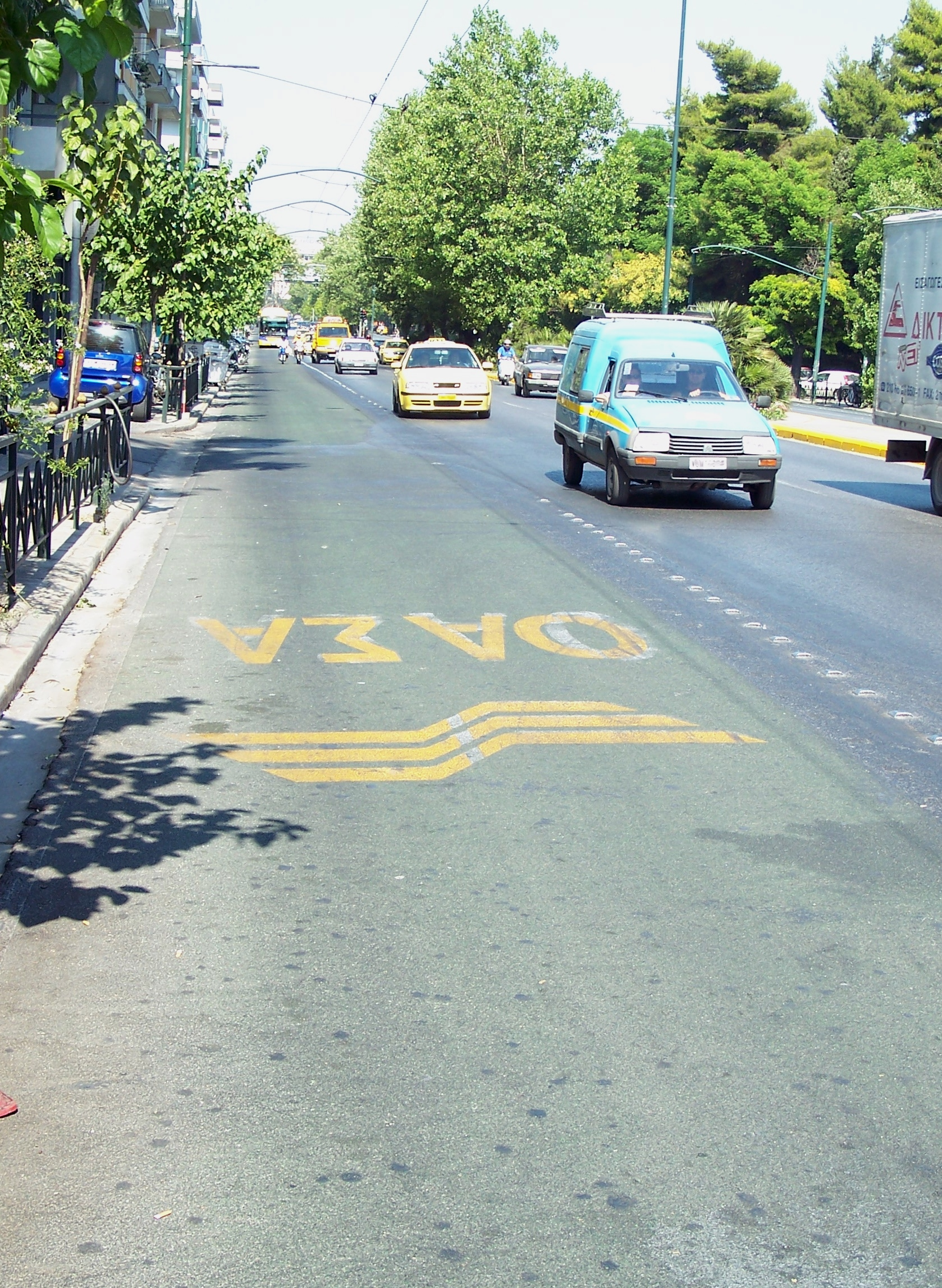 The latest kind of bus strips in Athens, Greece, at Alexandras ave. The are paved with colored rubber-asphalt and separated with cat's eyes from the rest of the road. Previously yellow plastic bumpers (15-20 cm tall) were used as separators, but pedestrians tripped over it and accidents occured and so they were replaced.